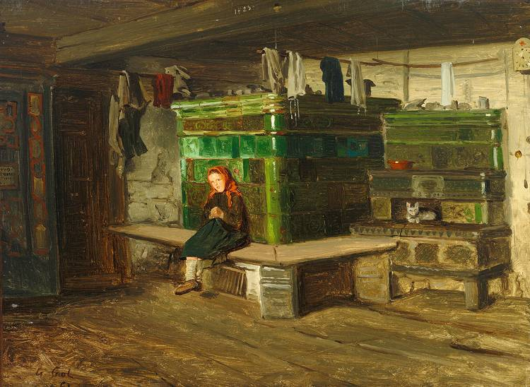 Georg Saal: view into a Blackforest living room with small girl on the oven bench, 1861, oil on canvas, 36 x 49 cm